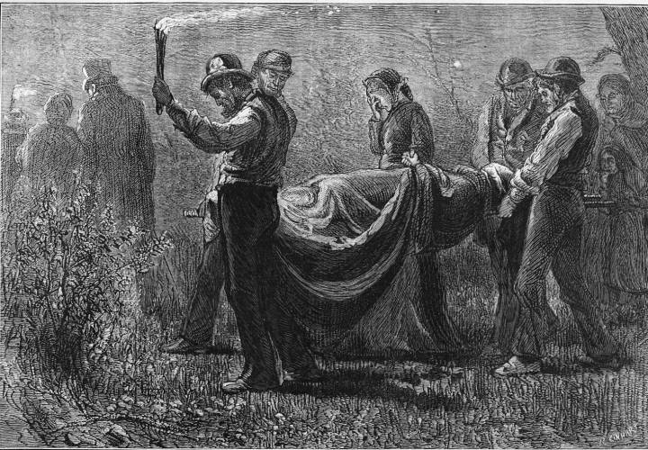 Hard Times, Stephen Blackpool's body being carried away, by Charles Stanley Reinhart